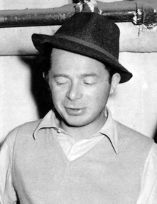 L. to R. : Charles Brackett (screenwriter), Billy Wilder (director) & Doane Harrison (editor) - publicity still (on the set of The Major and the Minor (1942)?)